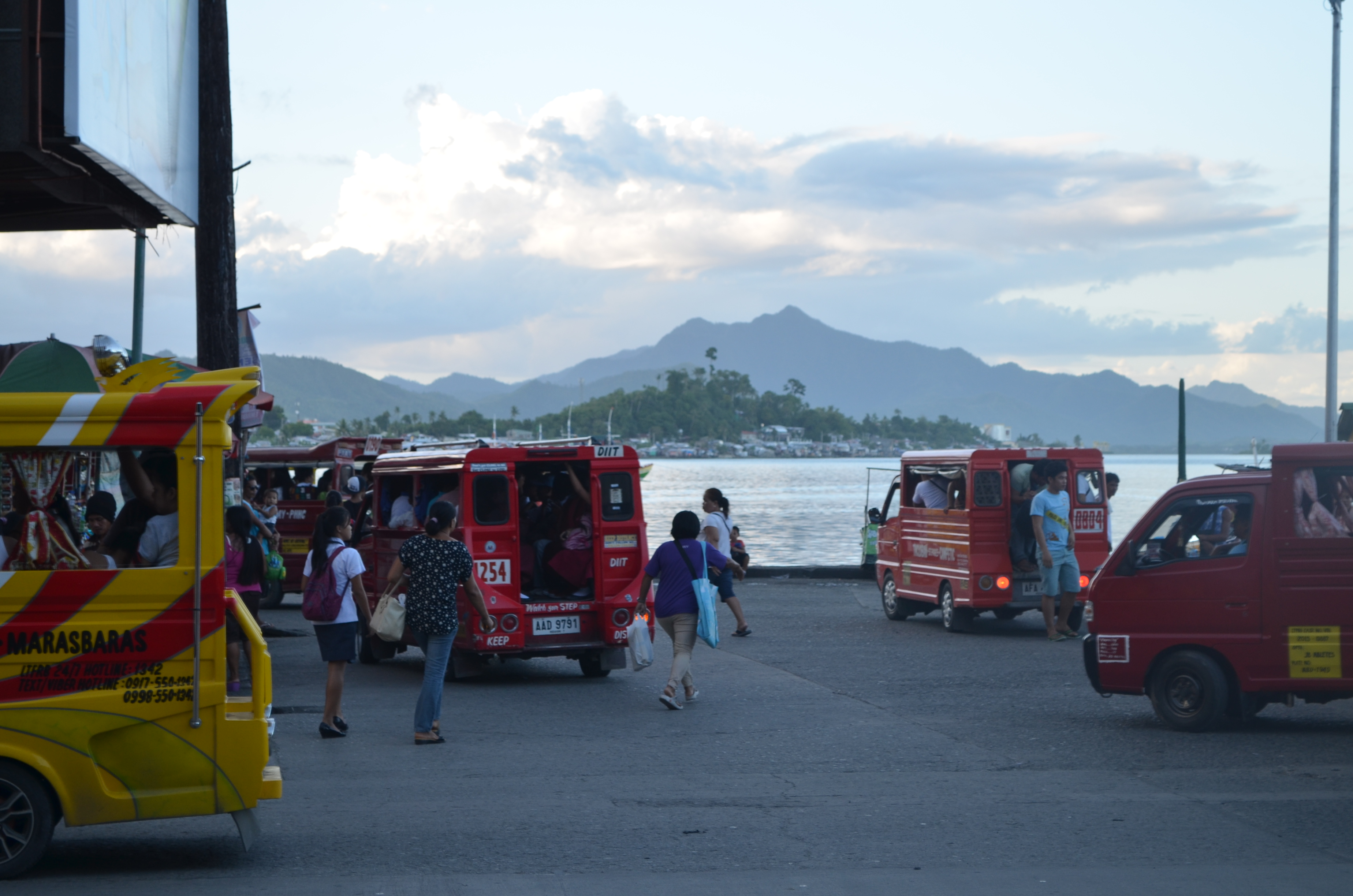 Taken during the December 2015 Sinirangan Bisaya Wikimedia Community activities in Eastern Visayas